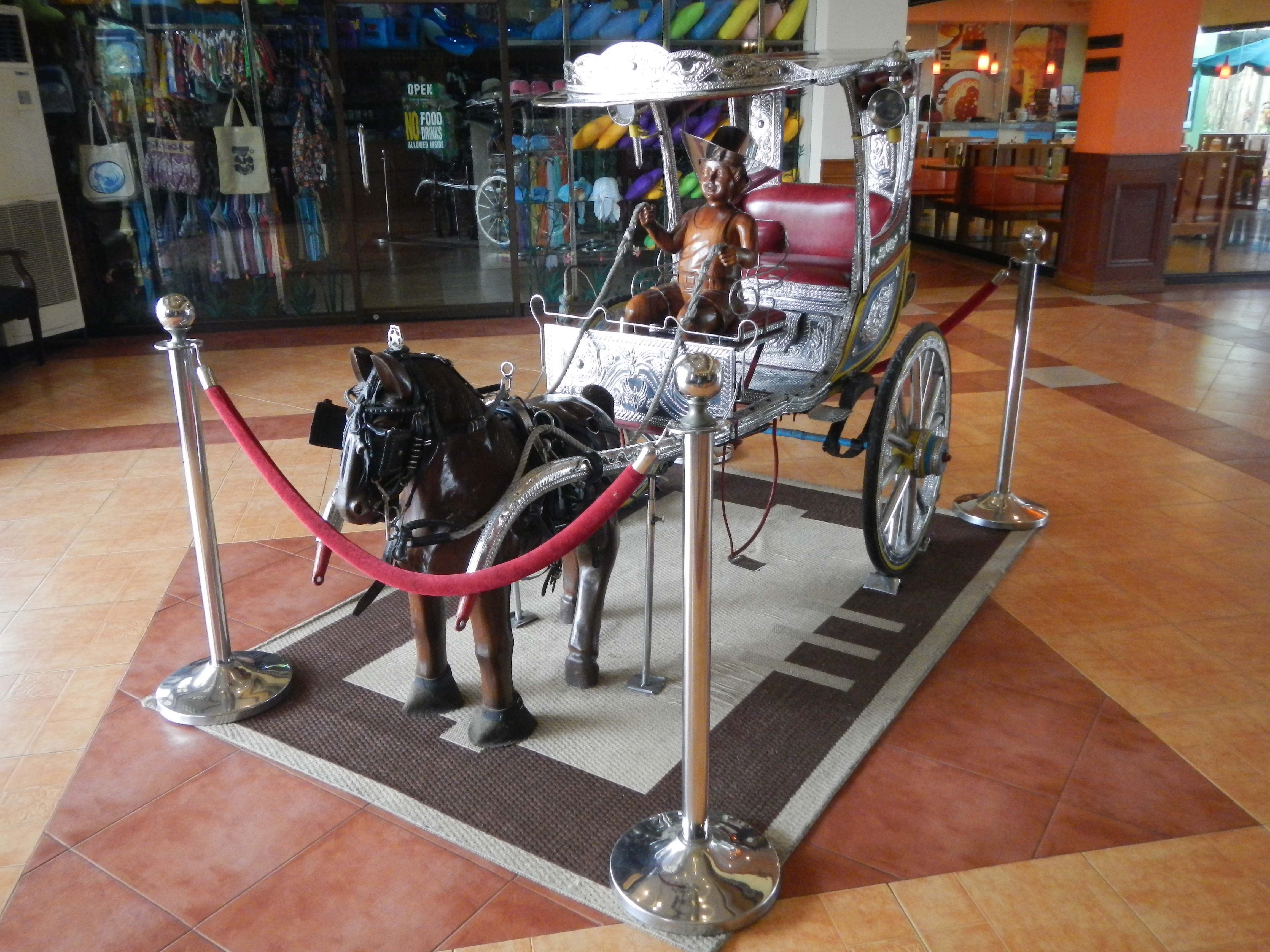 Cartela, Tourism, 8 Waves Waterpark & Hotel[1], DRT Highway, Ulingao, San Rafael, Bulacan[2][3]